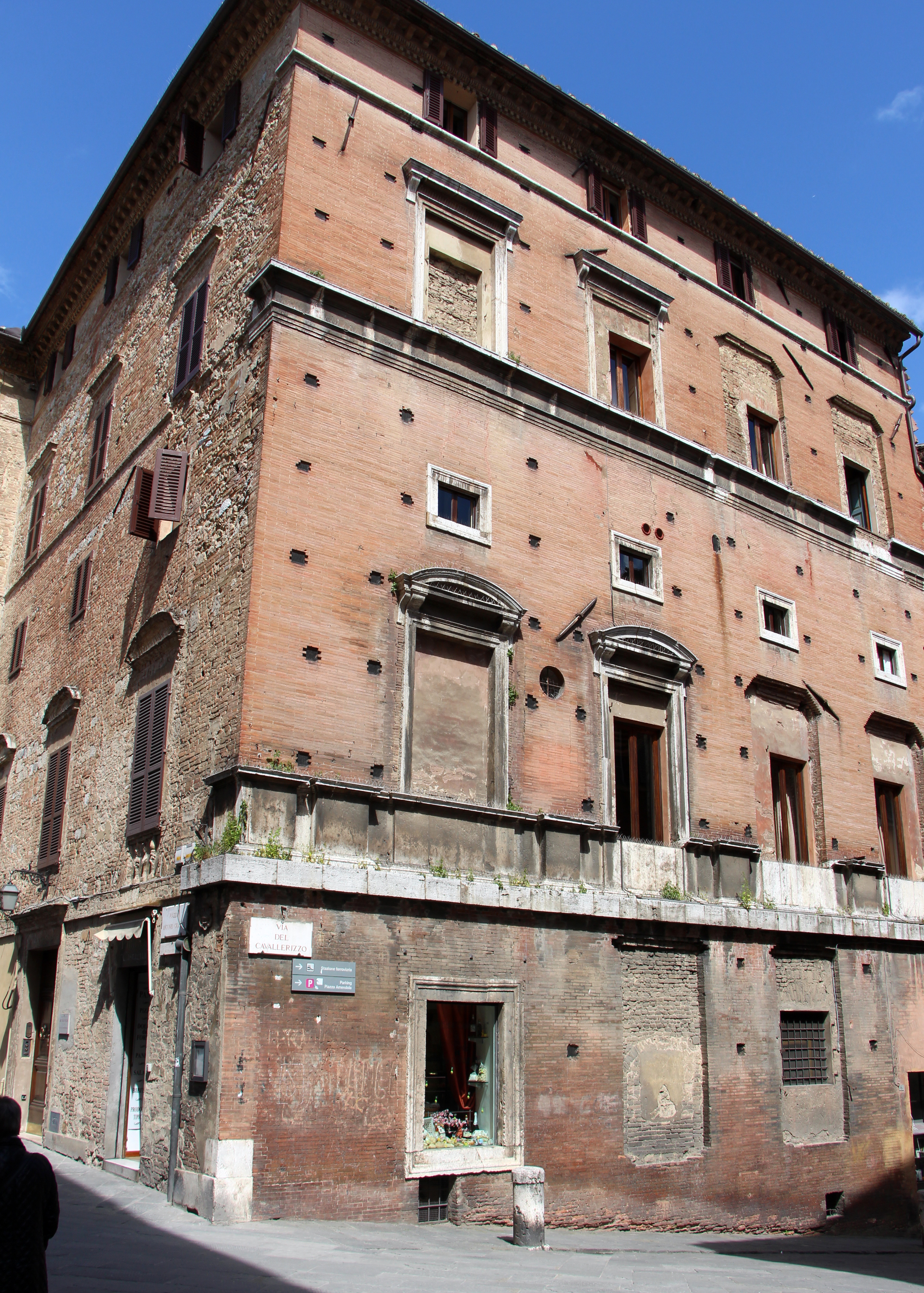 Streets in Siena